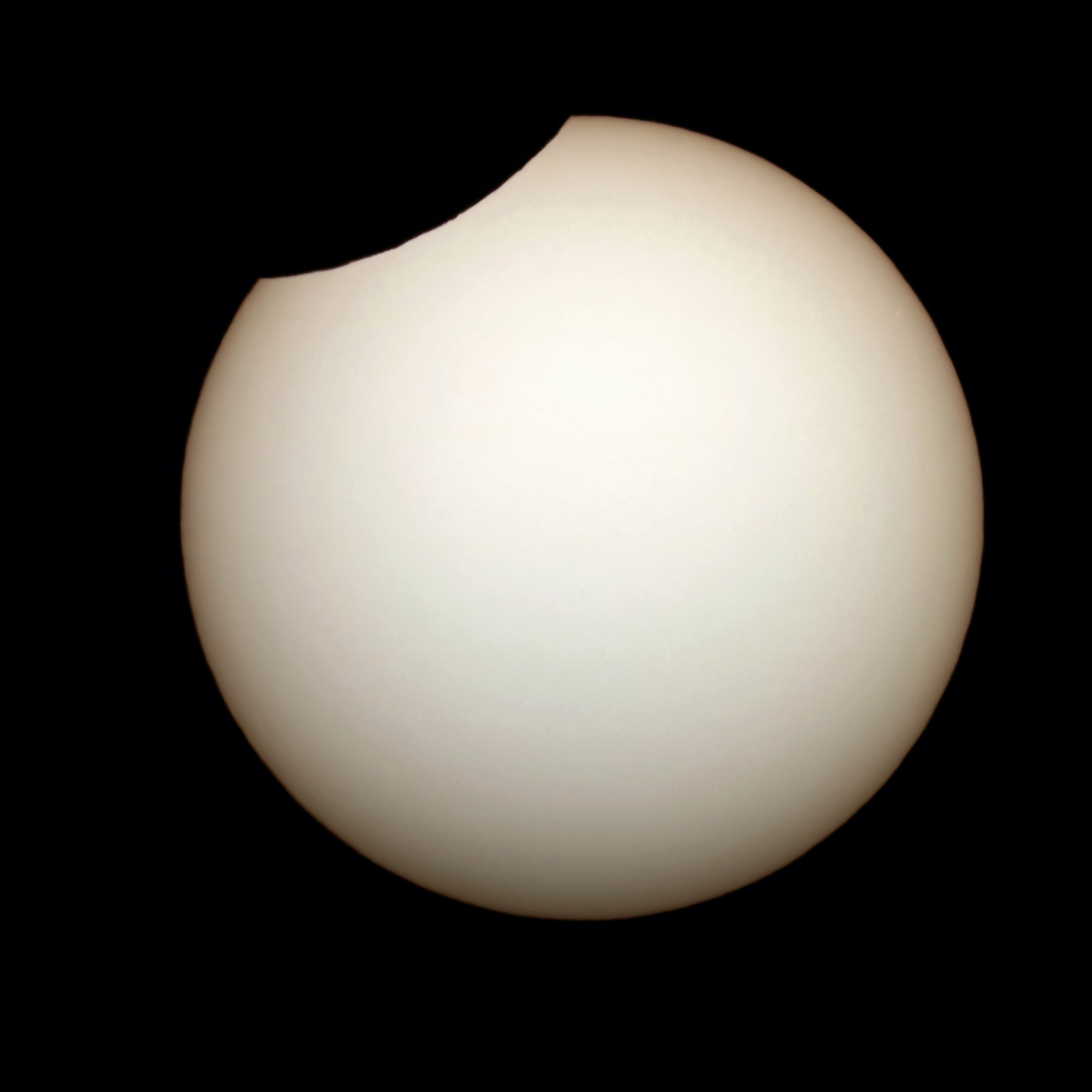 2018.08.11_1214Z_C8F6 Solar Eclipse